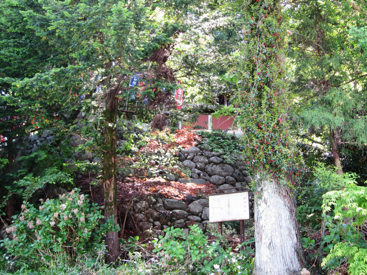 The site of Suwa Castle in Gero, Gifu.